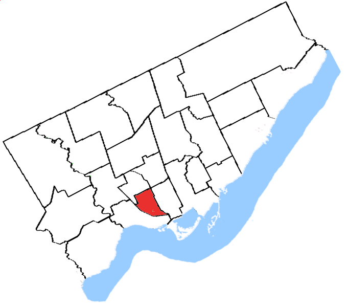 Map of the Trinity electoral district showing its borders from 1976 to 1987. Created by SimonP.